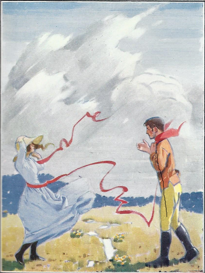 Girl and boy in windy landscape